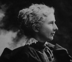 Mary Rippon, 1899. Rootsweb bio